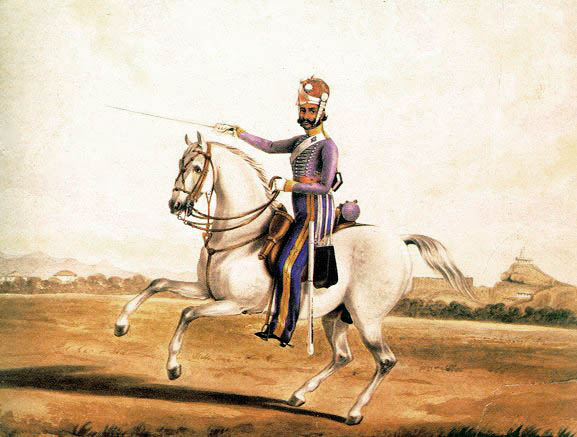 Madras Light Cavalry inde armée